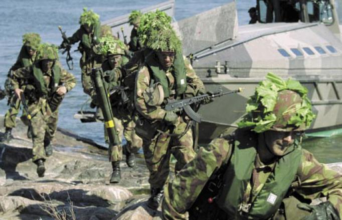 Finnish coastal jaegers making landfall from a Jurmo-class boat. The light disposable recoilless antitank rifle has the yellow ribbon of a dumb training weapon and the rifles carry a yellow blank cartridge impulse magnifier.